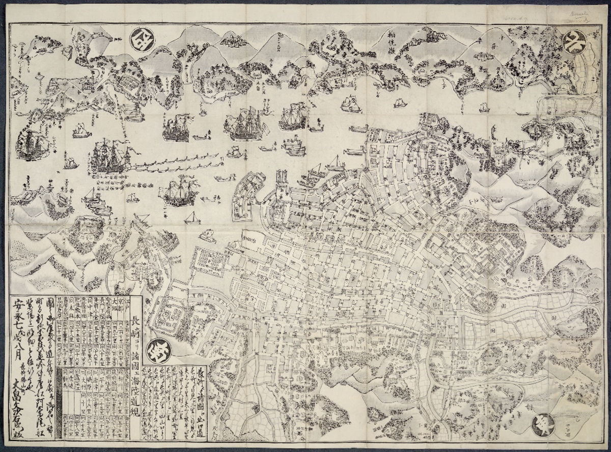 A block-printed map of Nagasaki, Hizen province in 1778. The map includes tables giving distances of various important places from Nagasaki. Plan of Nagasaki, Hizen province